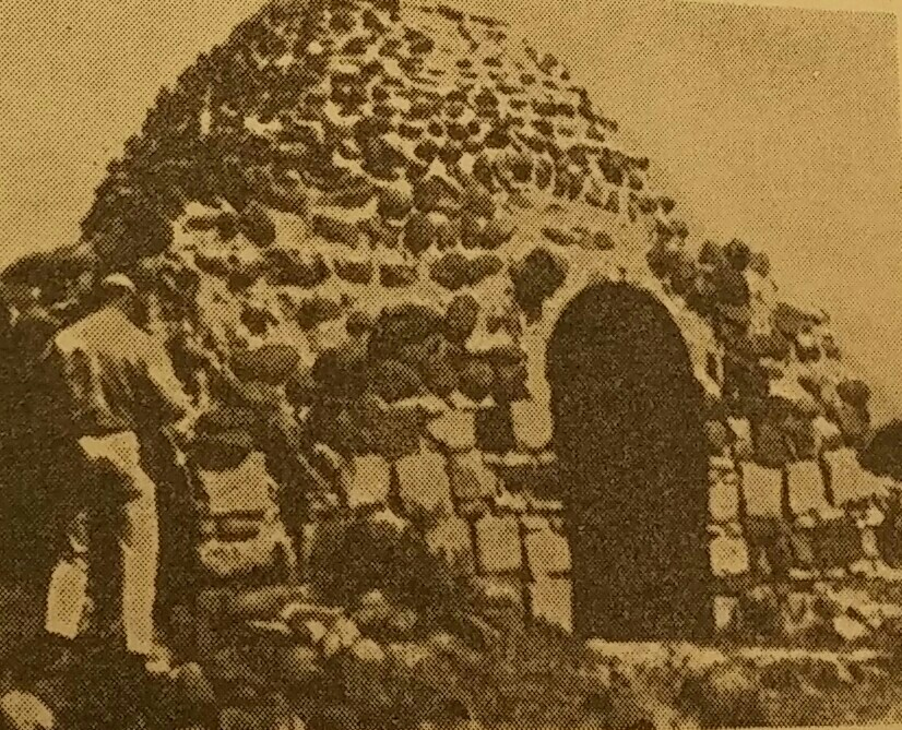 The old exterior view of Sassanid Chahartaghi of Sarab, East Azarbayjan Province, Iran